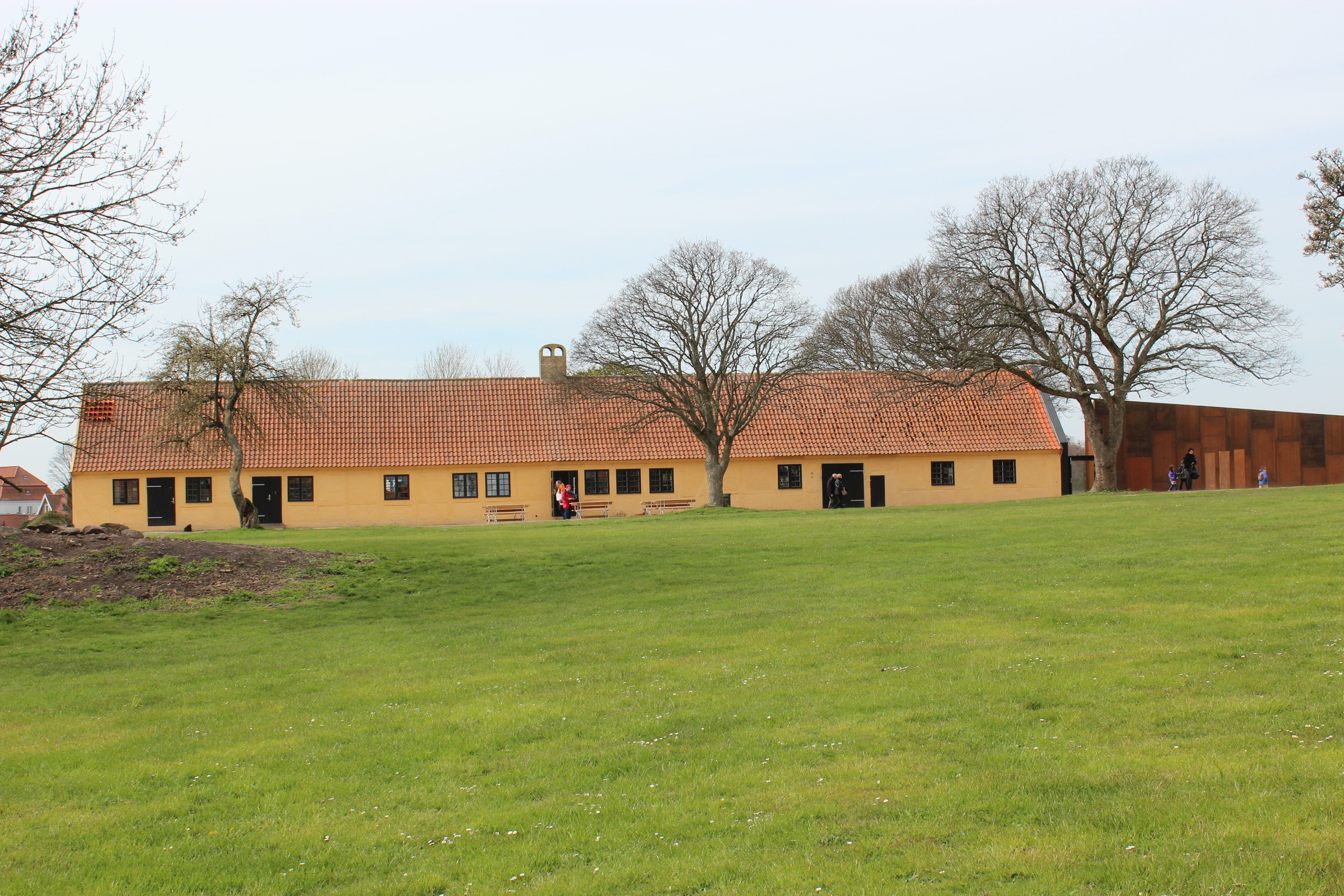 The Danish Castle Centre in Vordingborg